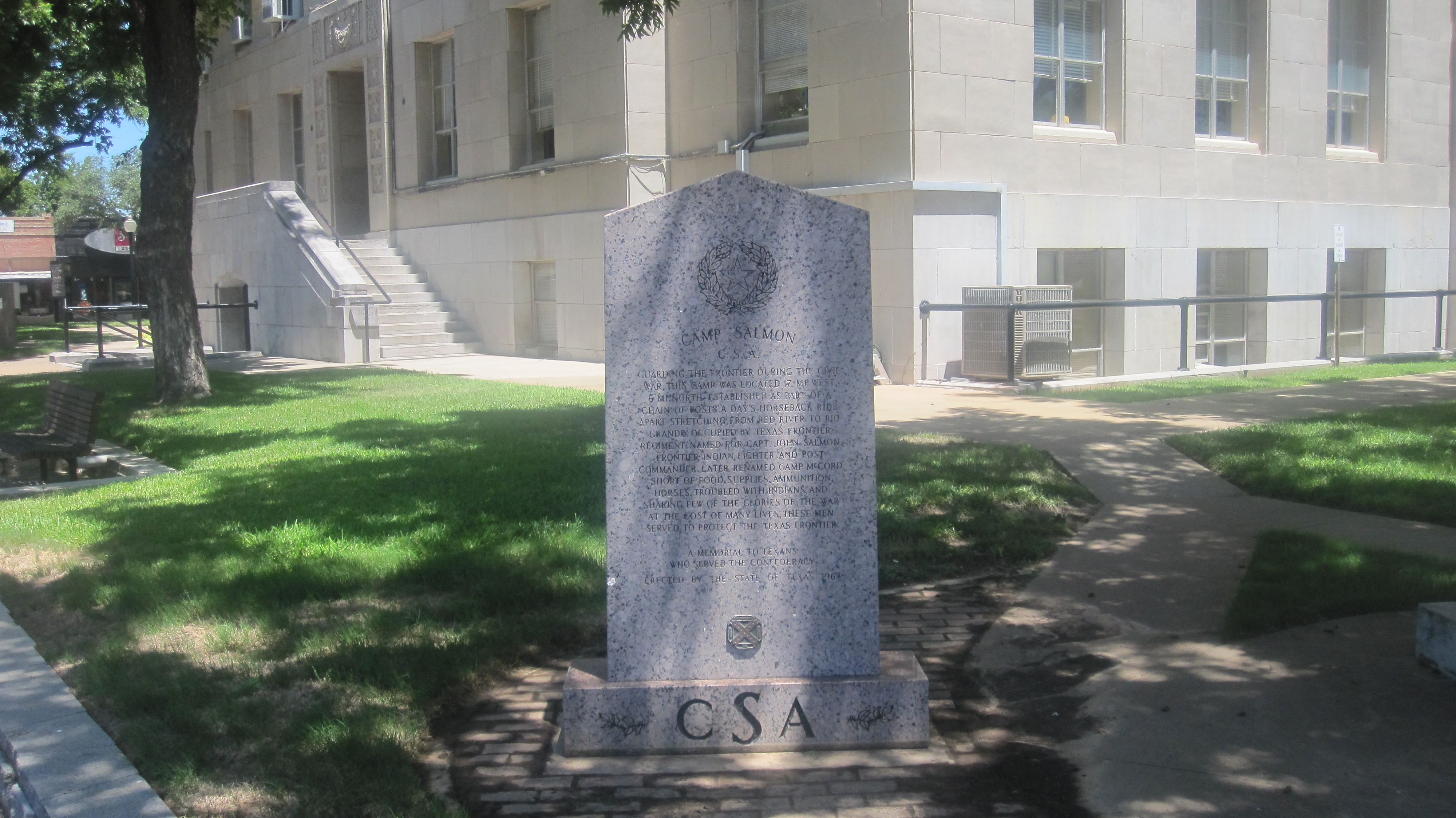 I took photo with Canon camera in Eastland, TX, on the courthouse grounds.